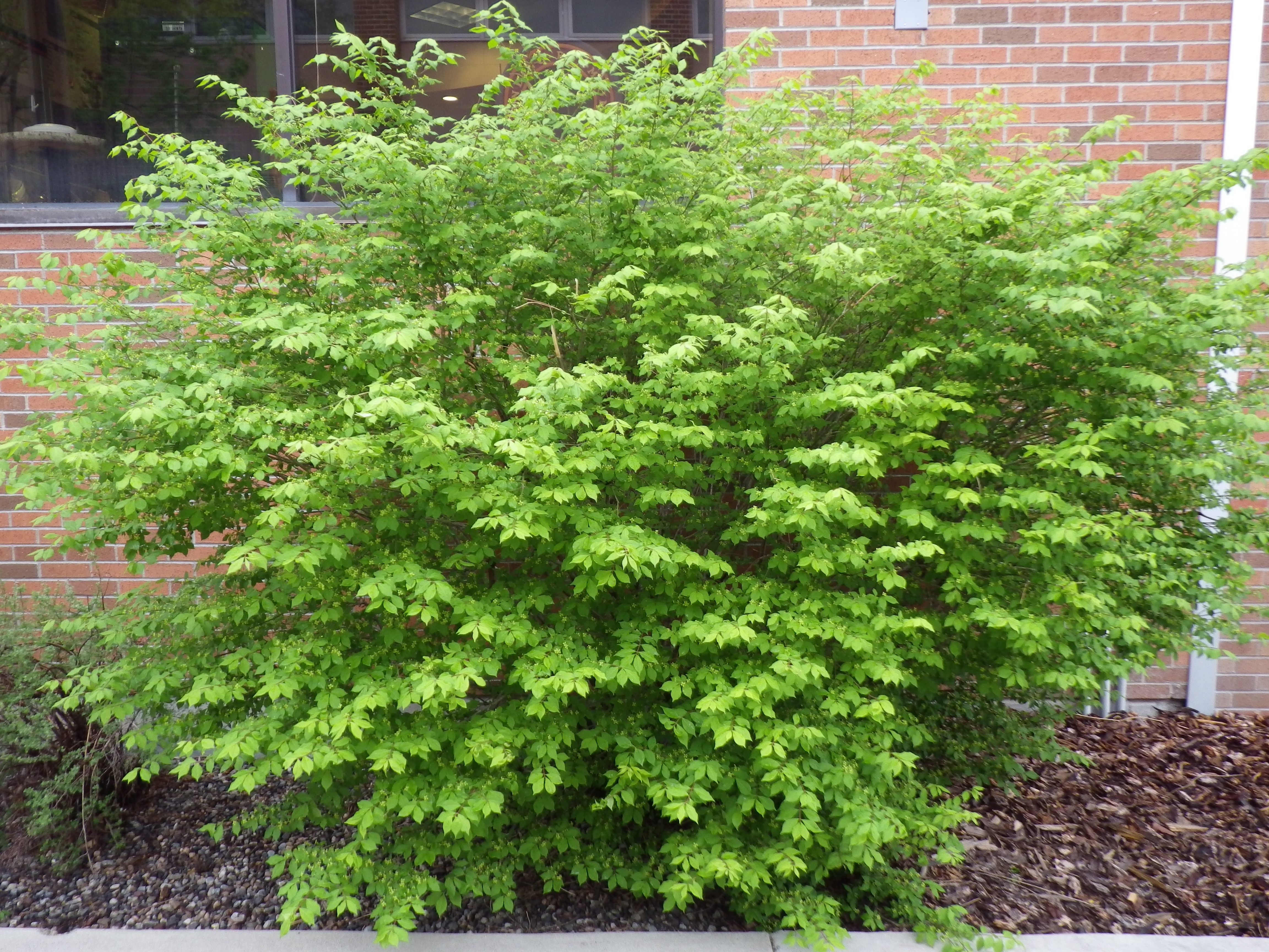 A common ornamental shrub with leaves that are showy reddish during the fall.